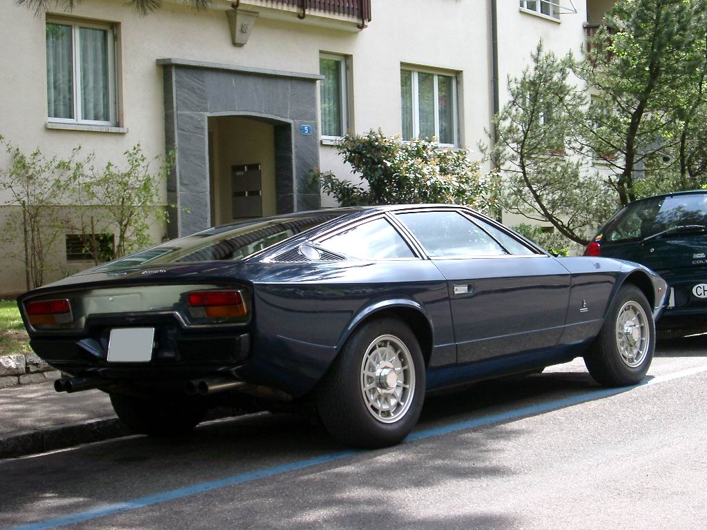 Maserati Khamsin 1975 rear view